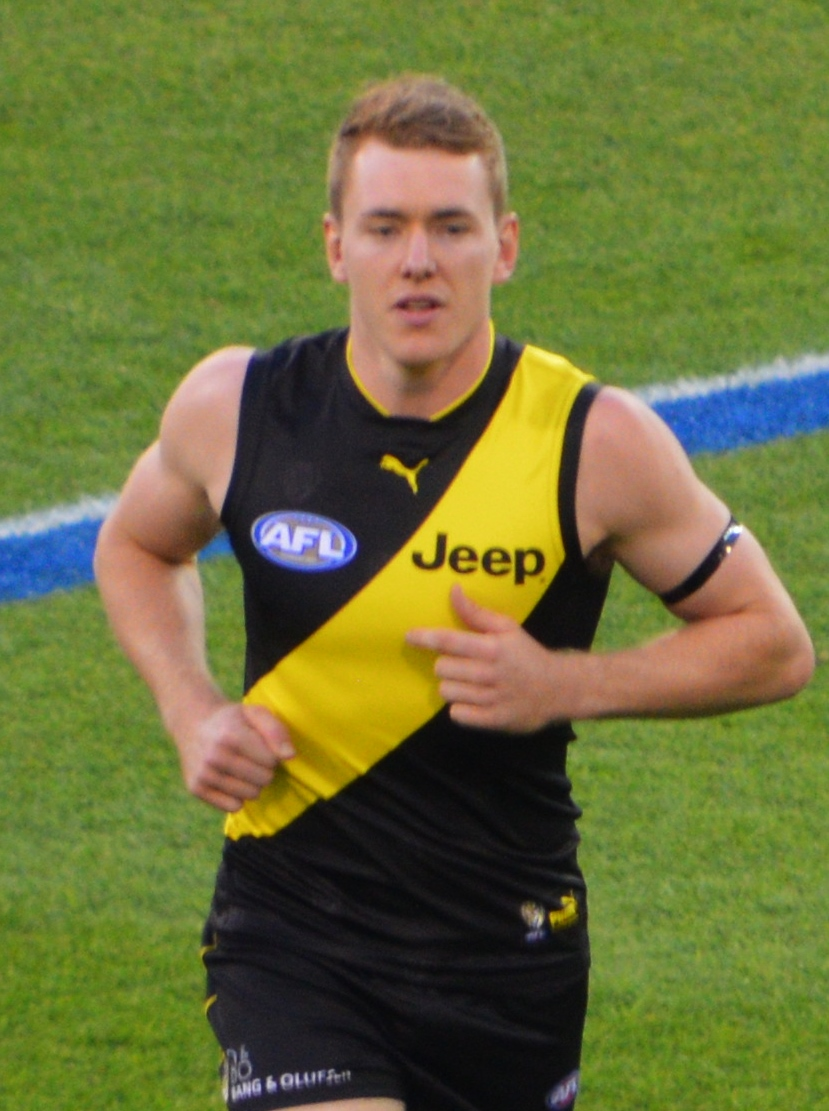 Jacob Townsend during the round 1, 2018 AFL match between Richmond and Carlton